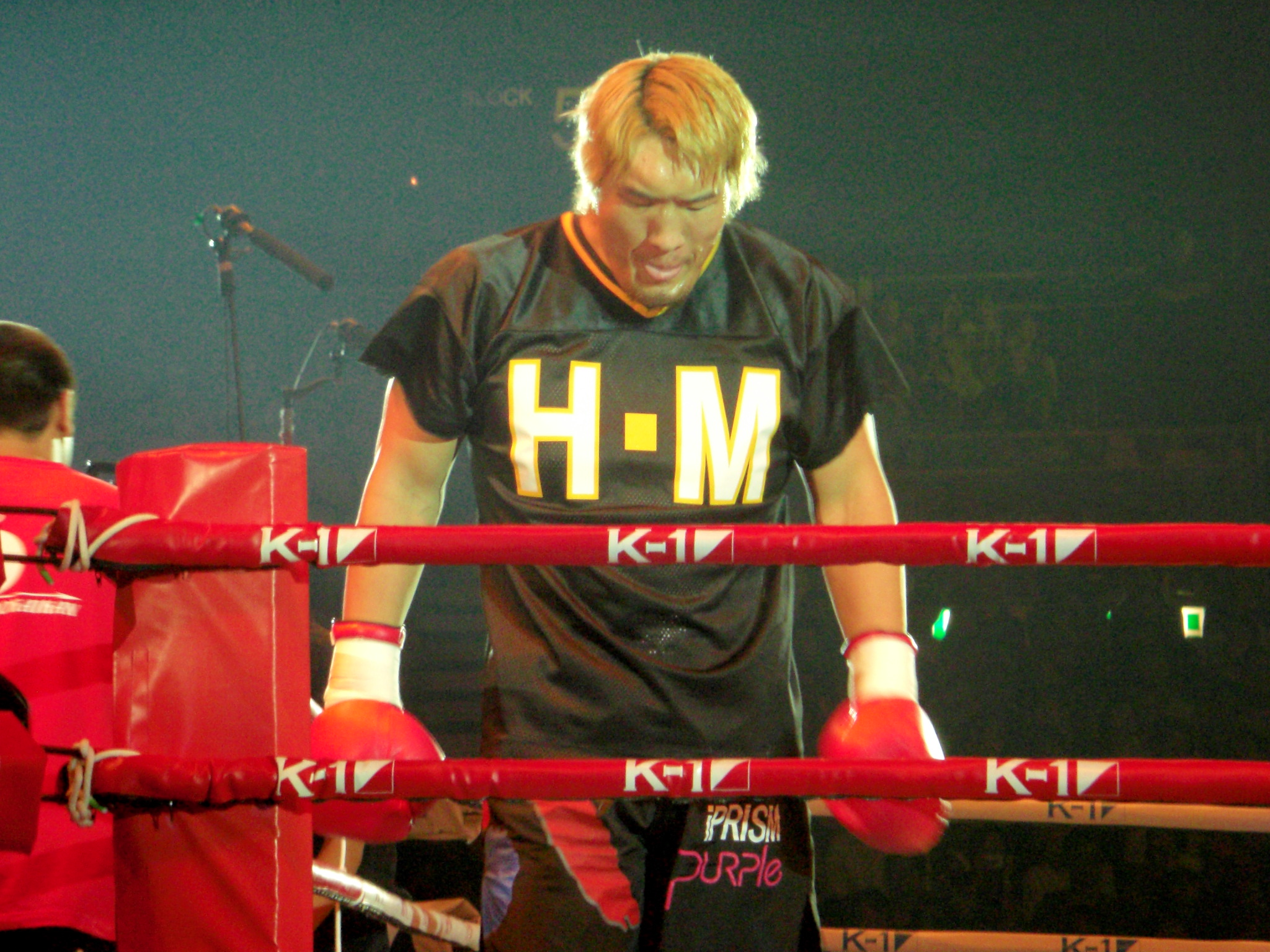 Picture of Choi Hong-man (aka 'The Korean Monster'/'Techno Goliath'). Photo taken by me from ringside. at the K-1 World Grand Prix 2007 in Hong Kong, August 5, 2007.